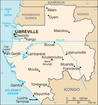 Map of Gabon with Czech description.